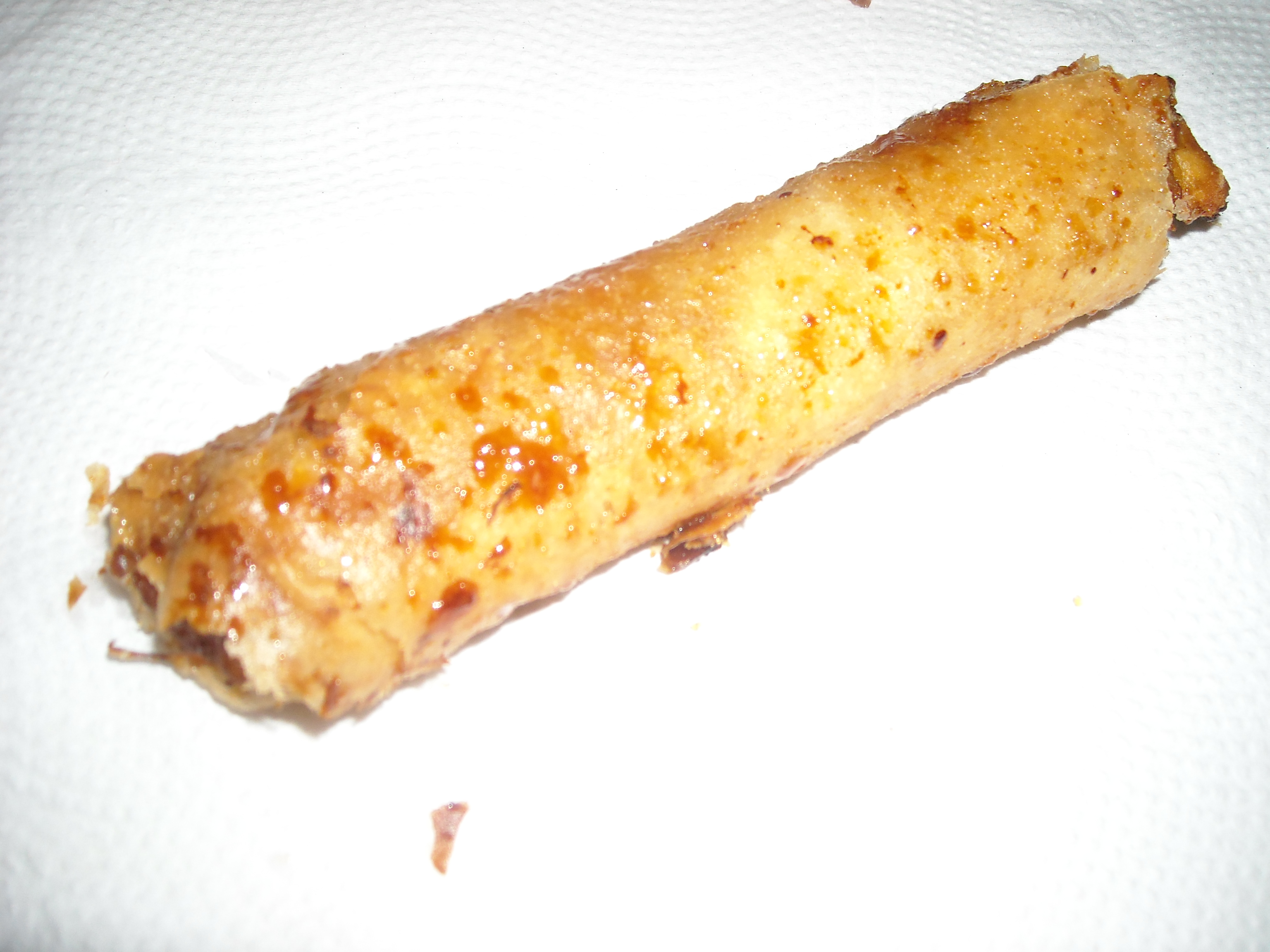 Turon.